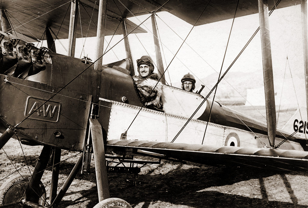 Bulgarian airmen in the British bomber trophy, Armstrong-Whitworth FK3 Nr. 6219 at Airfield Belitsa. On February 12, 1917 2nd Lt AC Stopher landed by mistake on Bulgarian territory. Bulgarian airplane pilots successfully used for 42 missions, night raids against British forces. On May 23, 1918 the engine was struck by anti-aircraft fire, the pilots were forced to land behind the front line and to abandon the aircraft, and then successfully back in the Bulgarian army